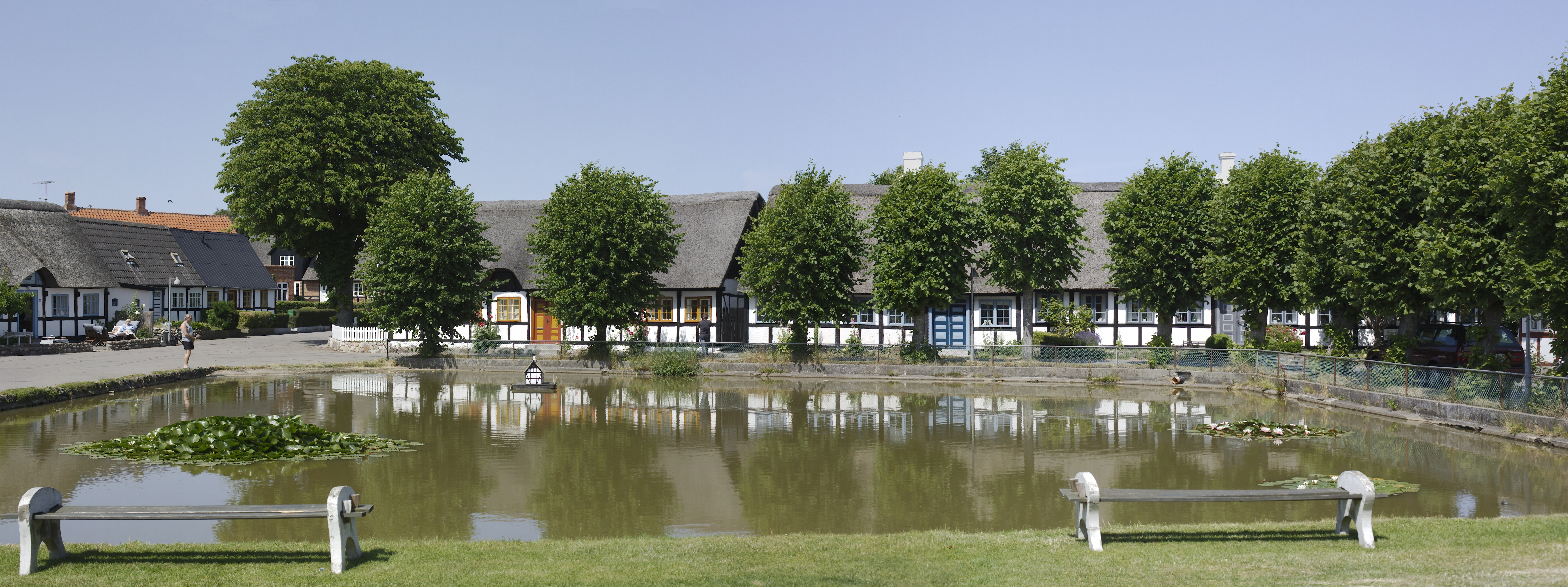 the street named "Ved Kæret", Nordby